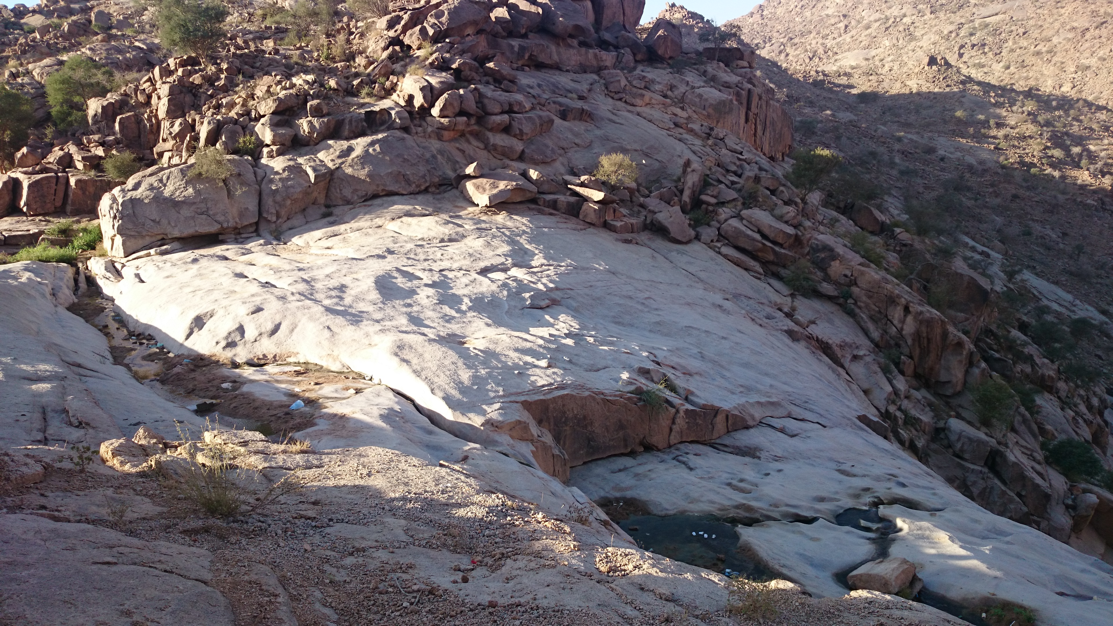 Khasha'a Aljawabirah (Makkah)